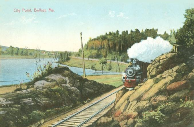 City Point, Belfast, Maine. This depicts the Belfast & Moosehead Lake Railroad line.